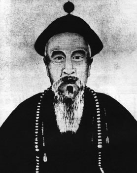 Xu Jiyu, politician and scholar of the Qing Dynasty.